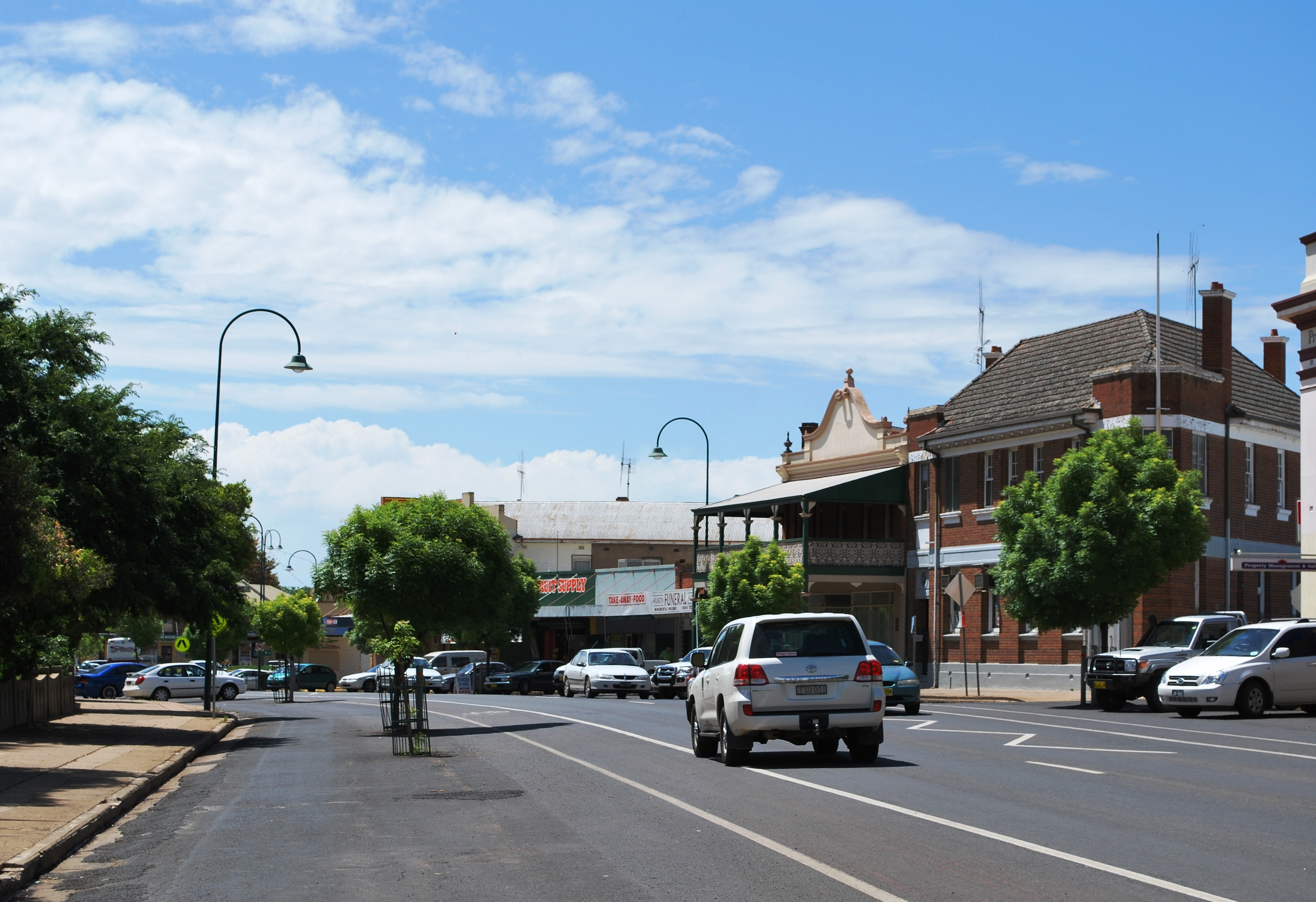 The main street of Wellington, New South Wales